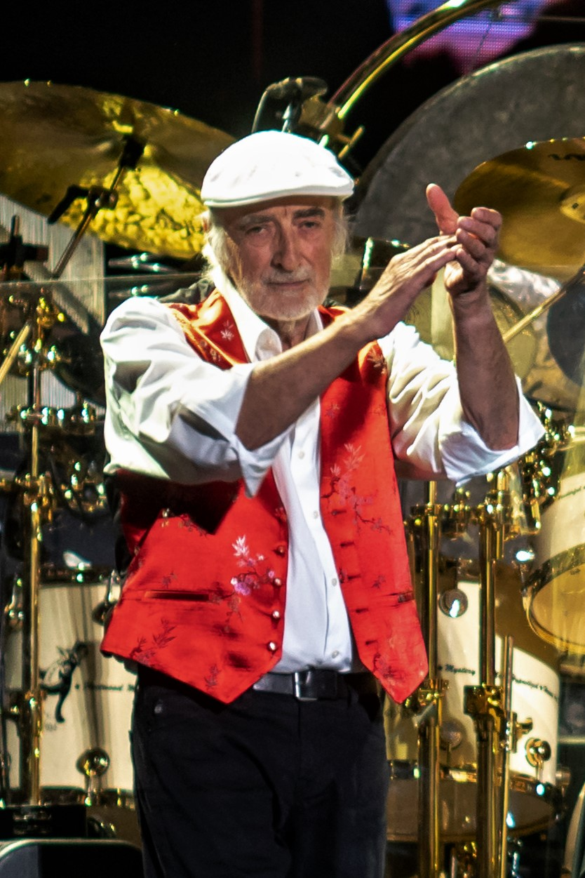 A cropped version of File:FleetMacTulsa031018-79 (30294524767).jpg